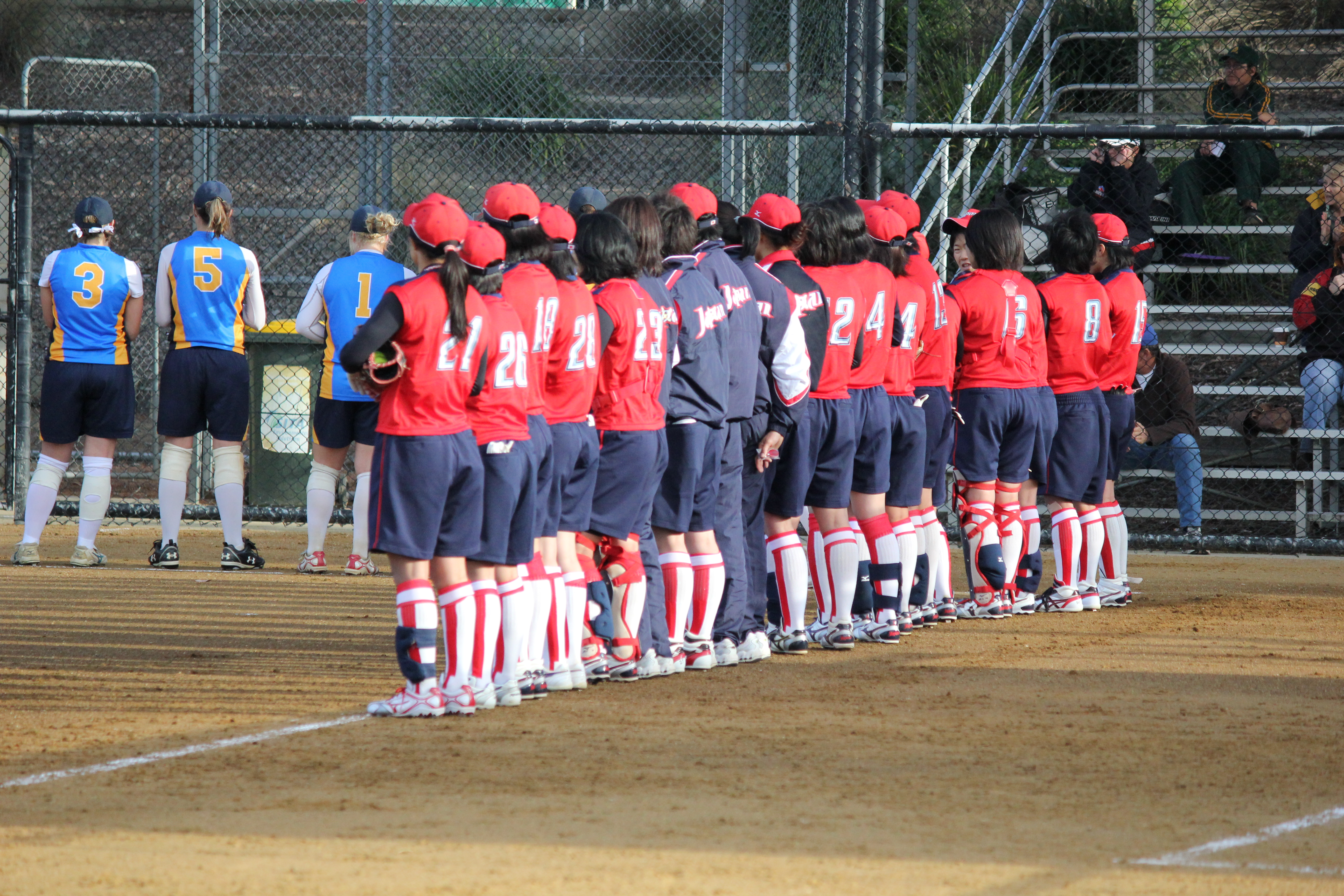 The first match of a two match series between the Australian Capital Territory and the Japan women's national softball team.